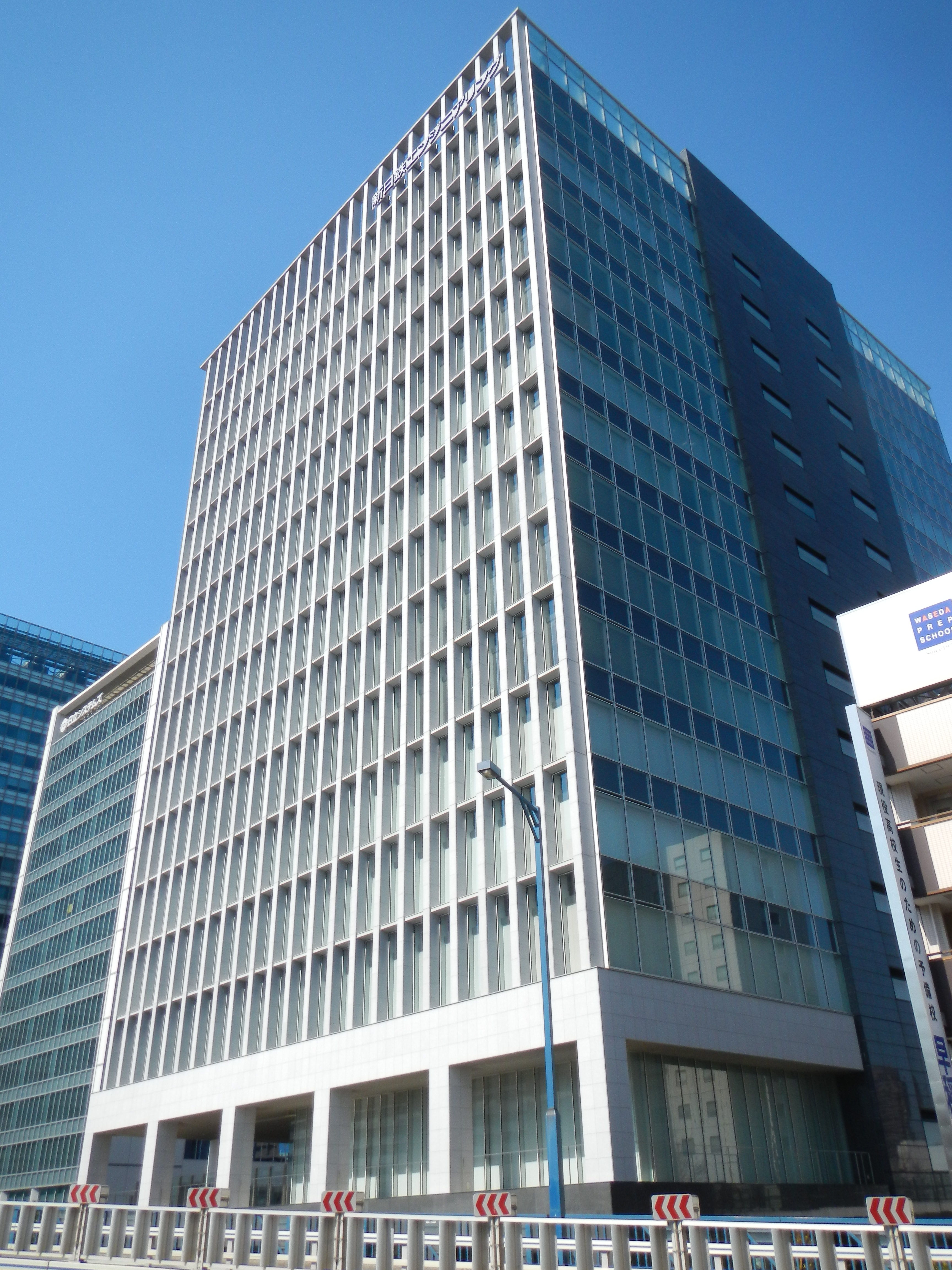 Headquarters Building of Nippon Steel Engineering Co., Ltd. at Ōsaki, Tokyo.